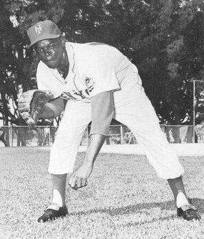 Professional baseball player Al Jackson